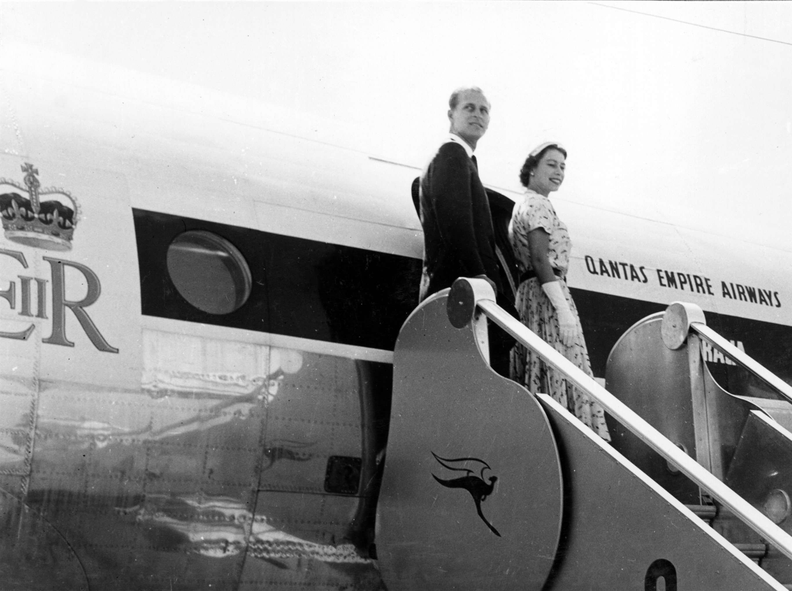 Queen Elizabeth II and the Duke of Edinburgh boarding the Royal Aircraft to leave Queensland, 1954